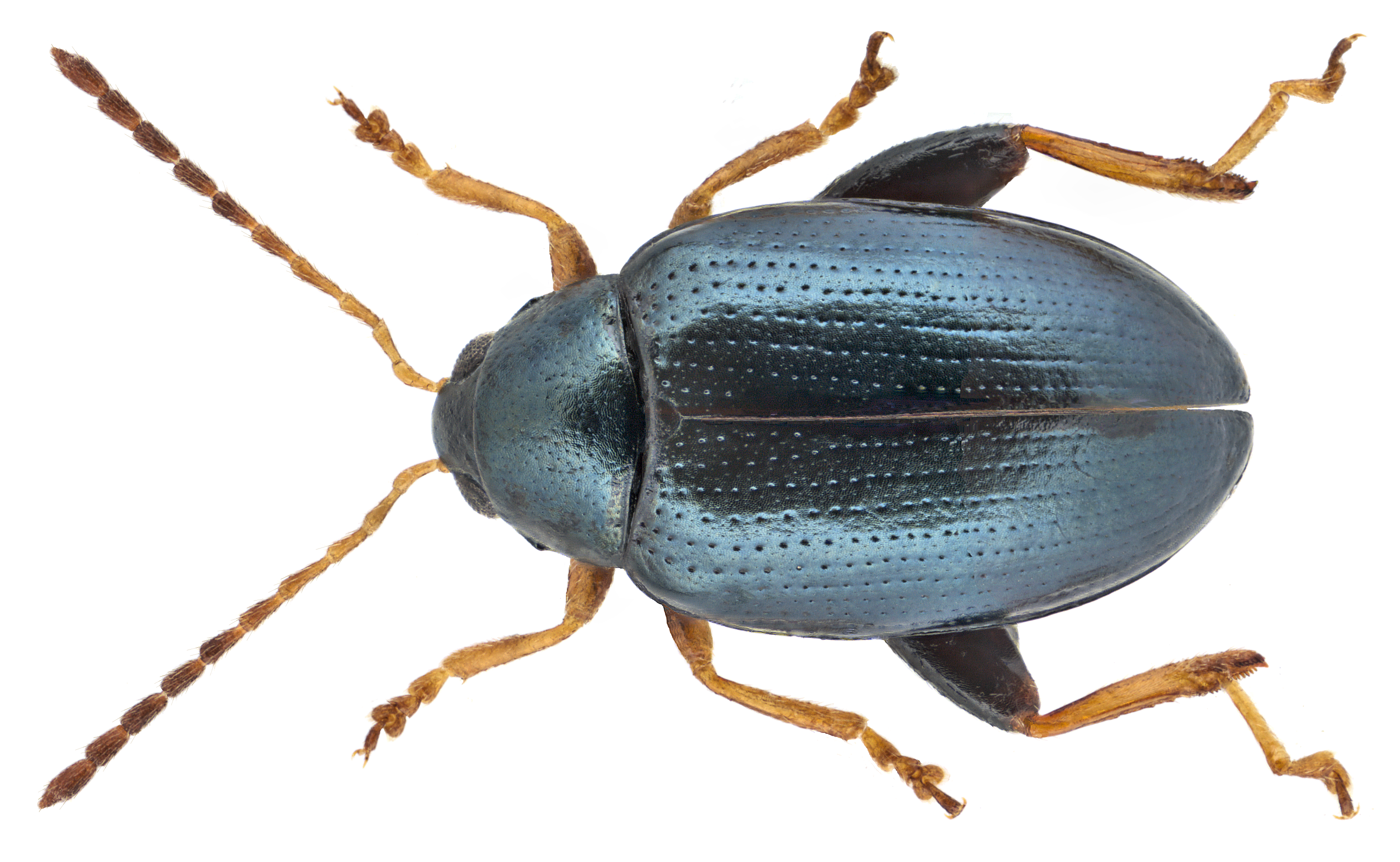 Family: Chrysomelidae Size: 2,7 mm (2,0 to 3,3 mm) Origin: Europe Ecology: lives on Cruciferae Location: Germany, Bavaria, Upper Franconia, Kulmbach, Hoeferaenger leg.det. U.Schmidt,12.V.1993; Photo: U.Schmidt, 2014